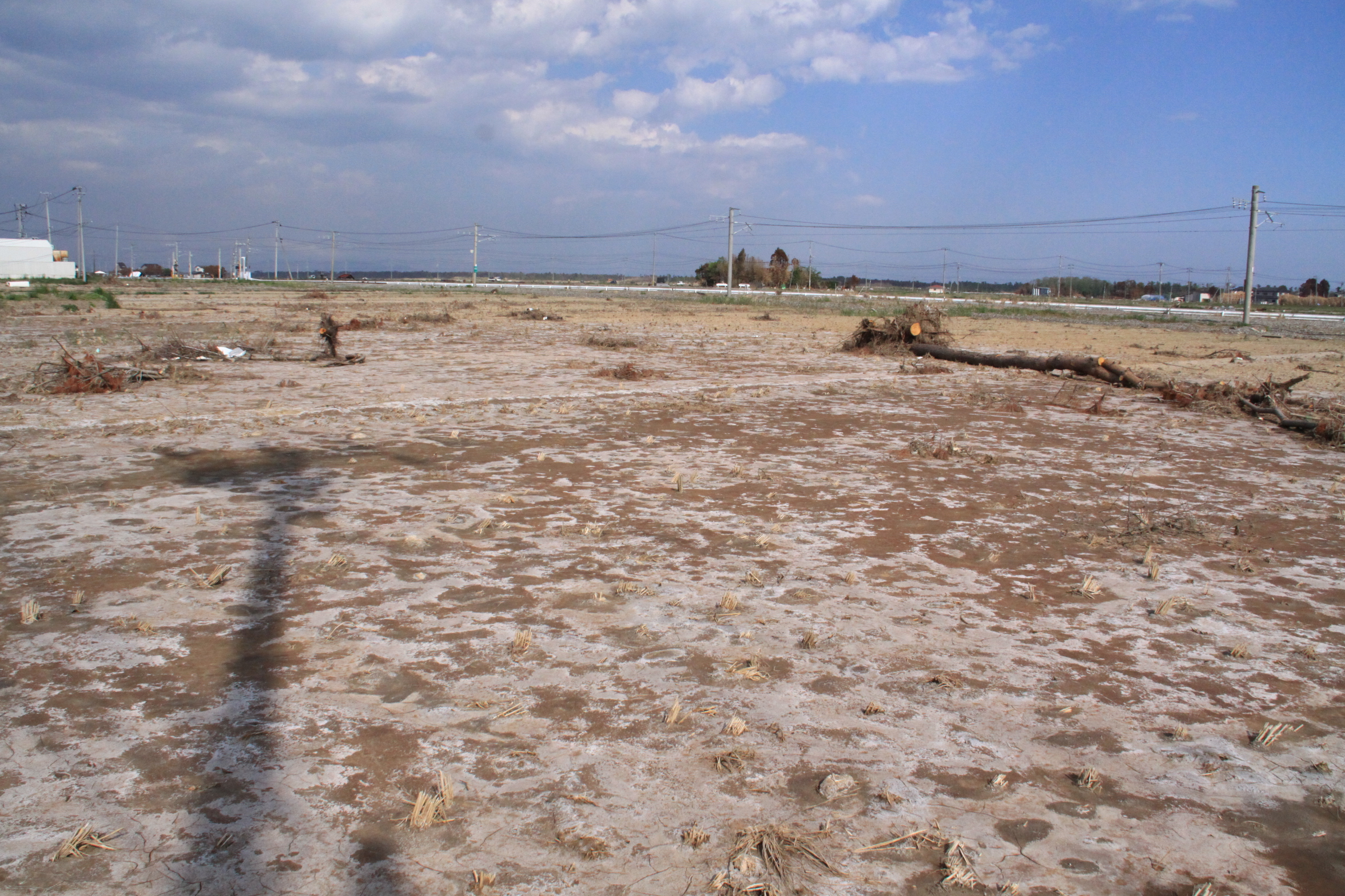 Surface of rice field has discolored to white after Tsunami has dried in Higashimatsushima, Miyagi.